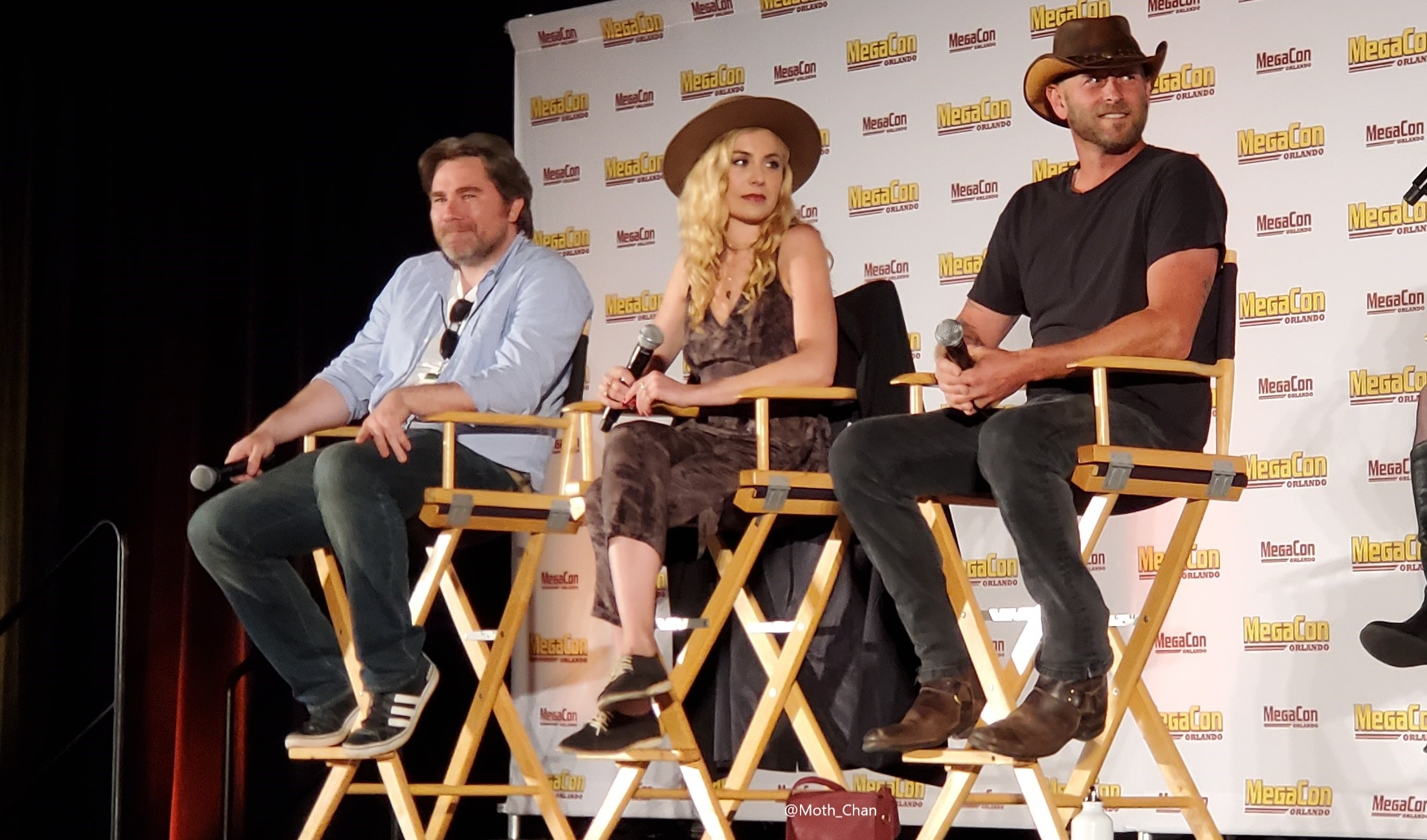 Roger Clark, Alex McKenna, and Rob Wiethoff at MegaCon Orlando 2019.